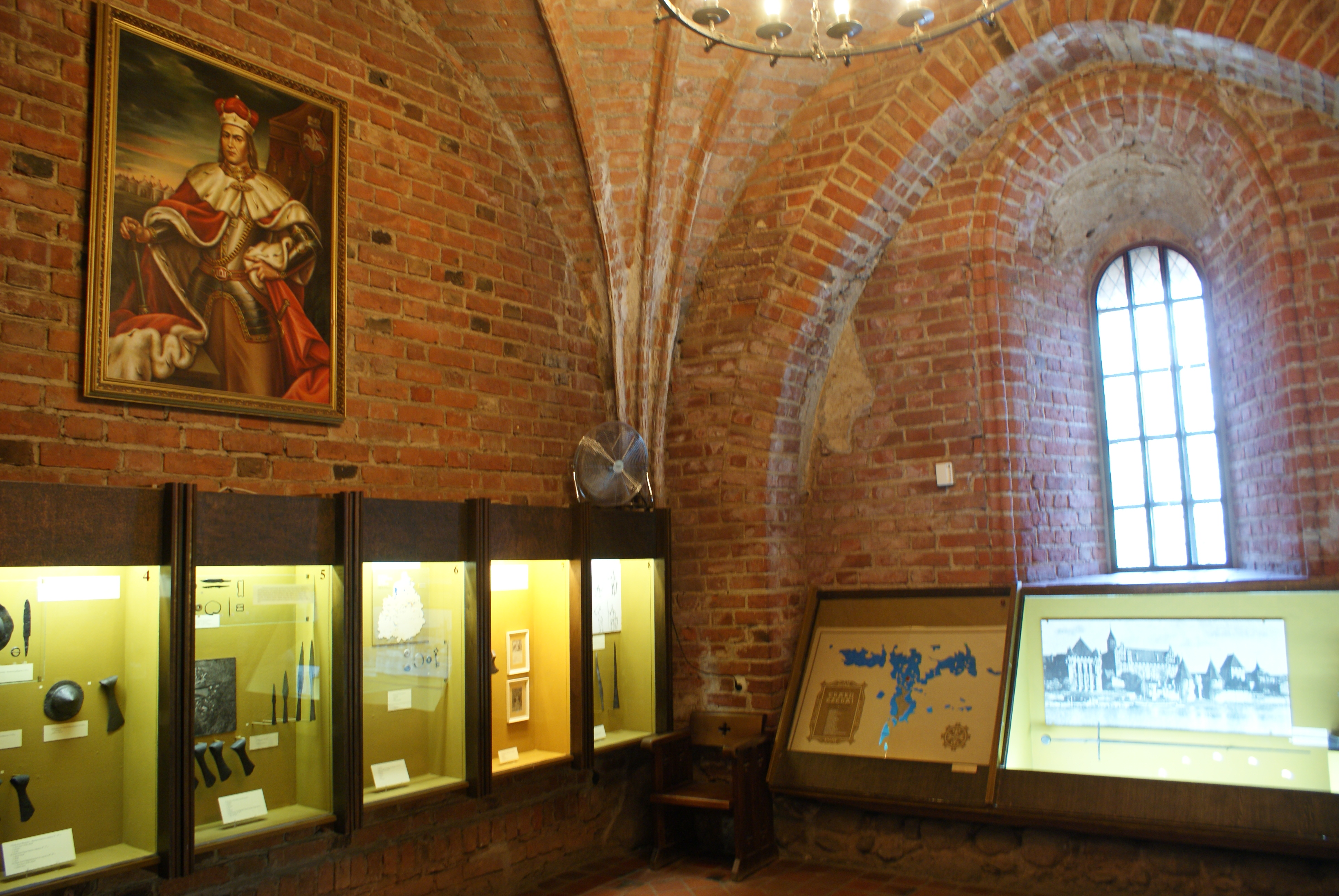 Collections of the Trakai Island Castle